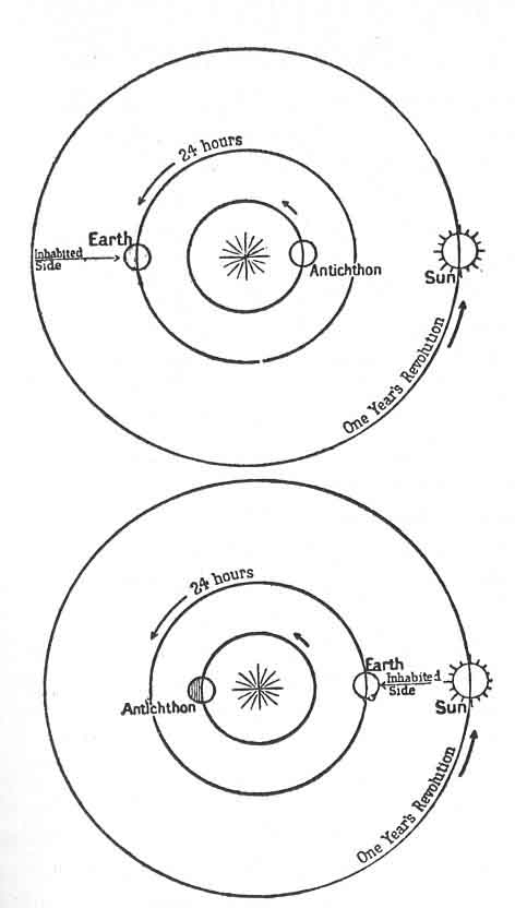 From Dante and the Early Astronomers by M. A. Orr, 1913, therefore is in public domain.